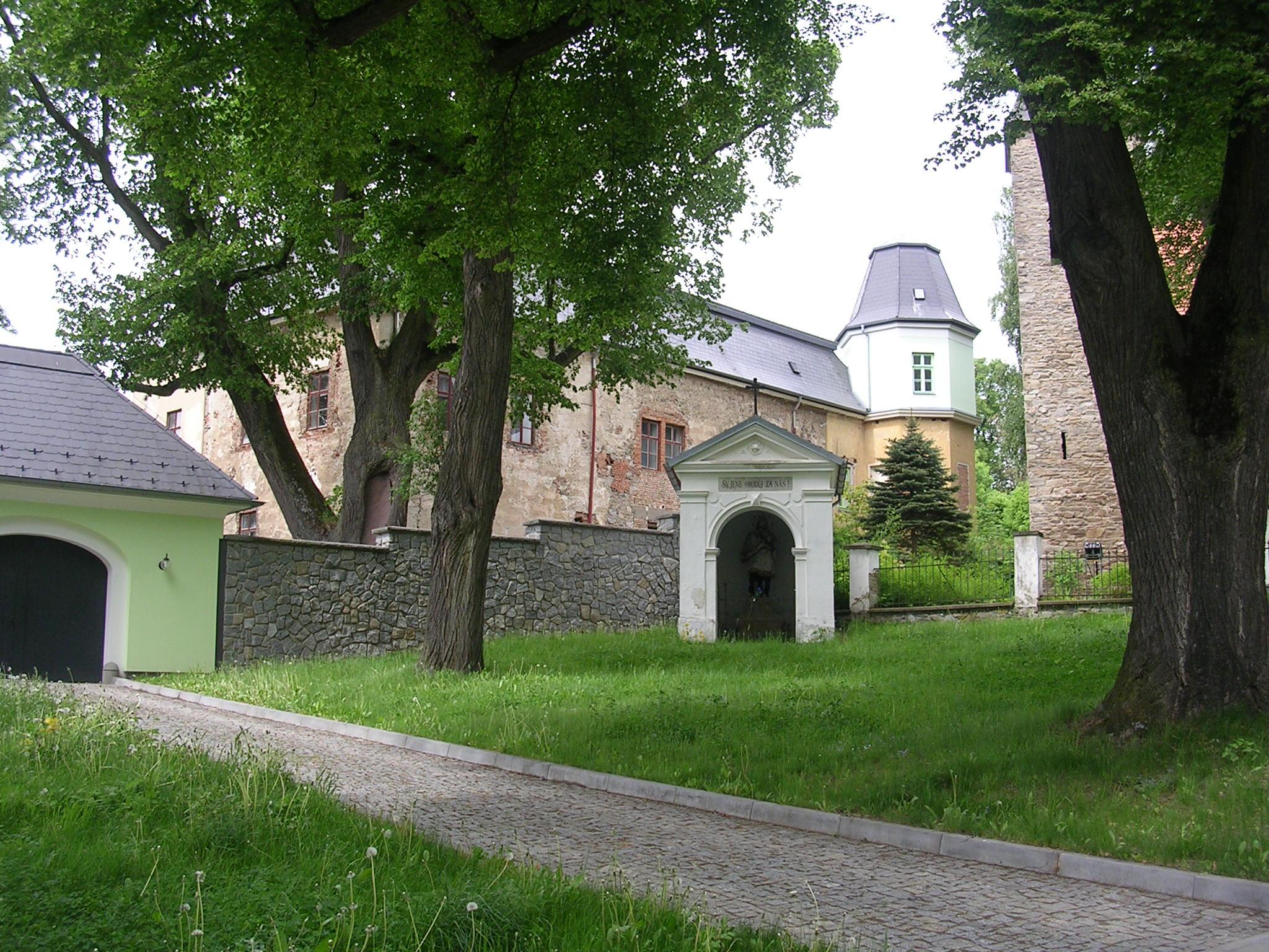 Neustupov, Benešov District, Central Bohemian Region, the Czech Republic.